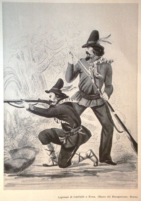 Garibaldi's legionairs in Rome (1848)